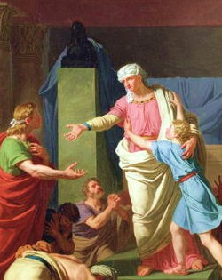 Benjamin embraces Joseph